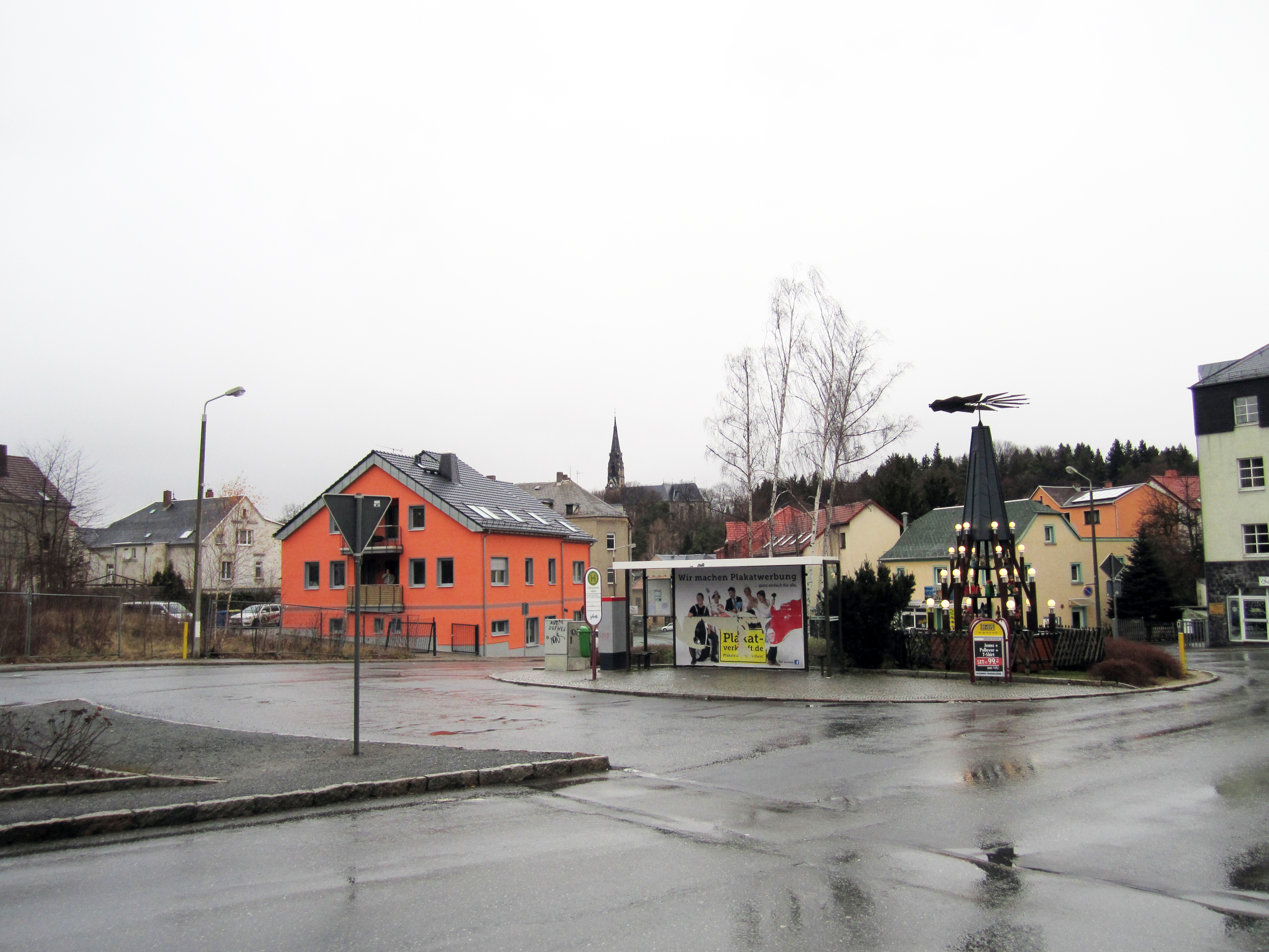 Christmas pyramid of Planitz, community of Zwickau, Saxony, Germany.